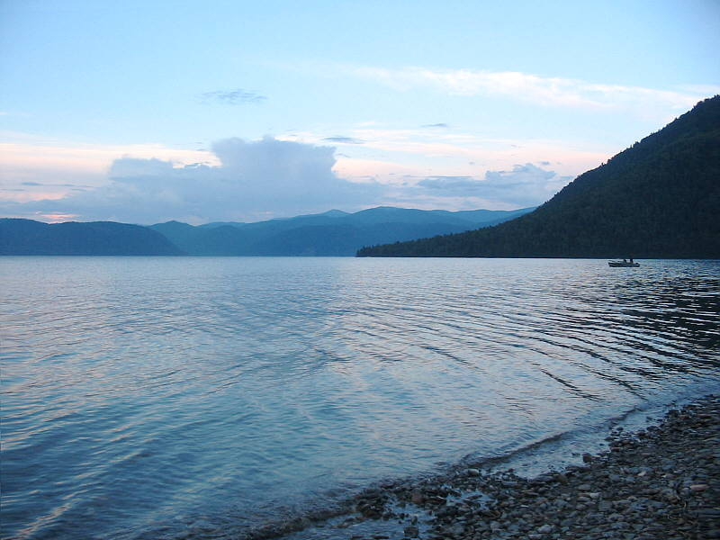 Lake Teletskoye, Koldor cordon, near the mountain and the river of the same name.